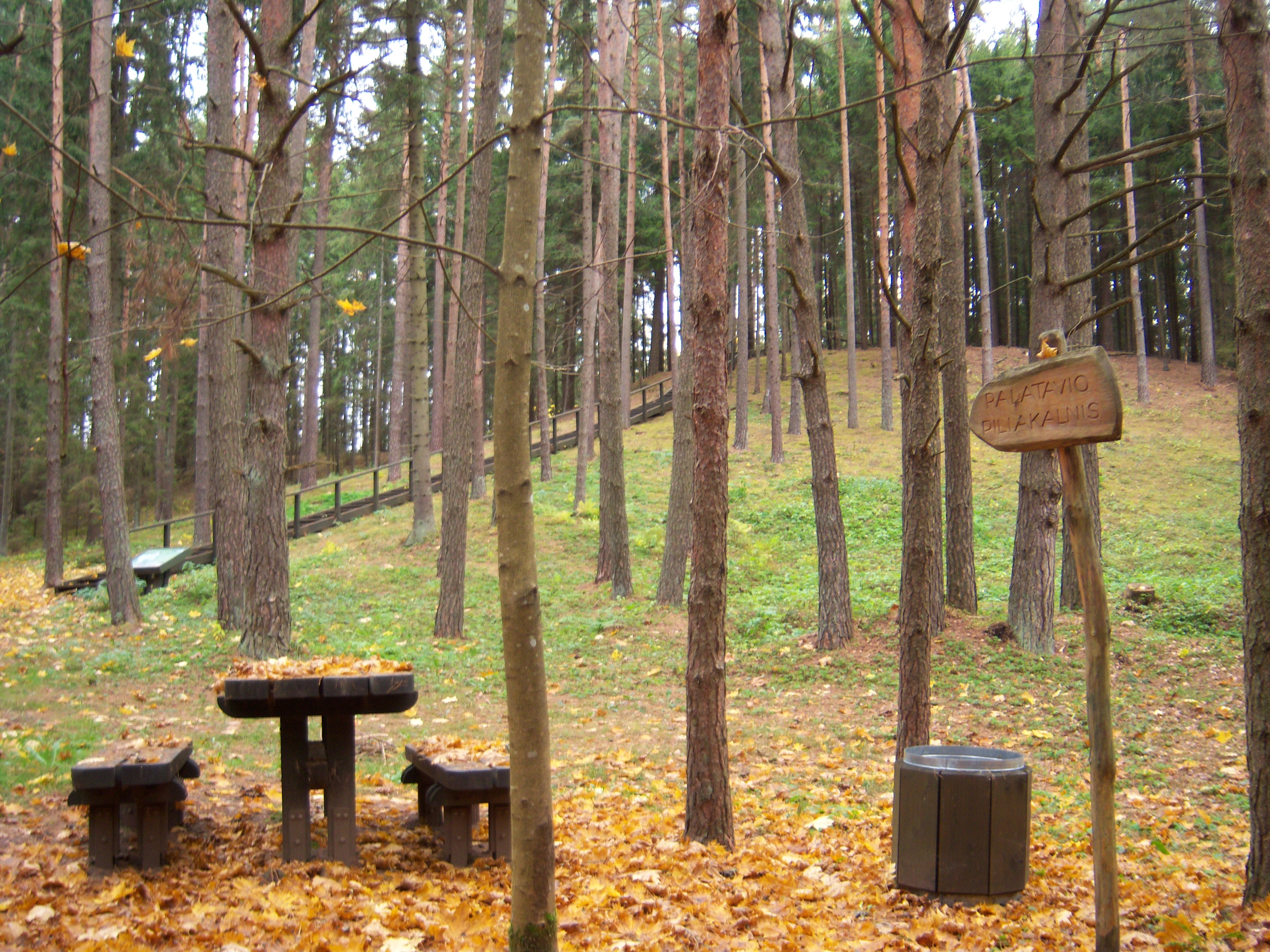 Palatavys Hilfort, Kelmė District, Lithuania